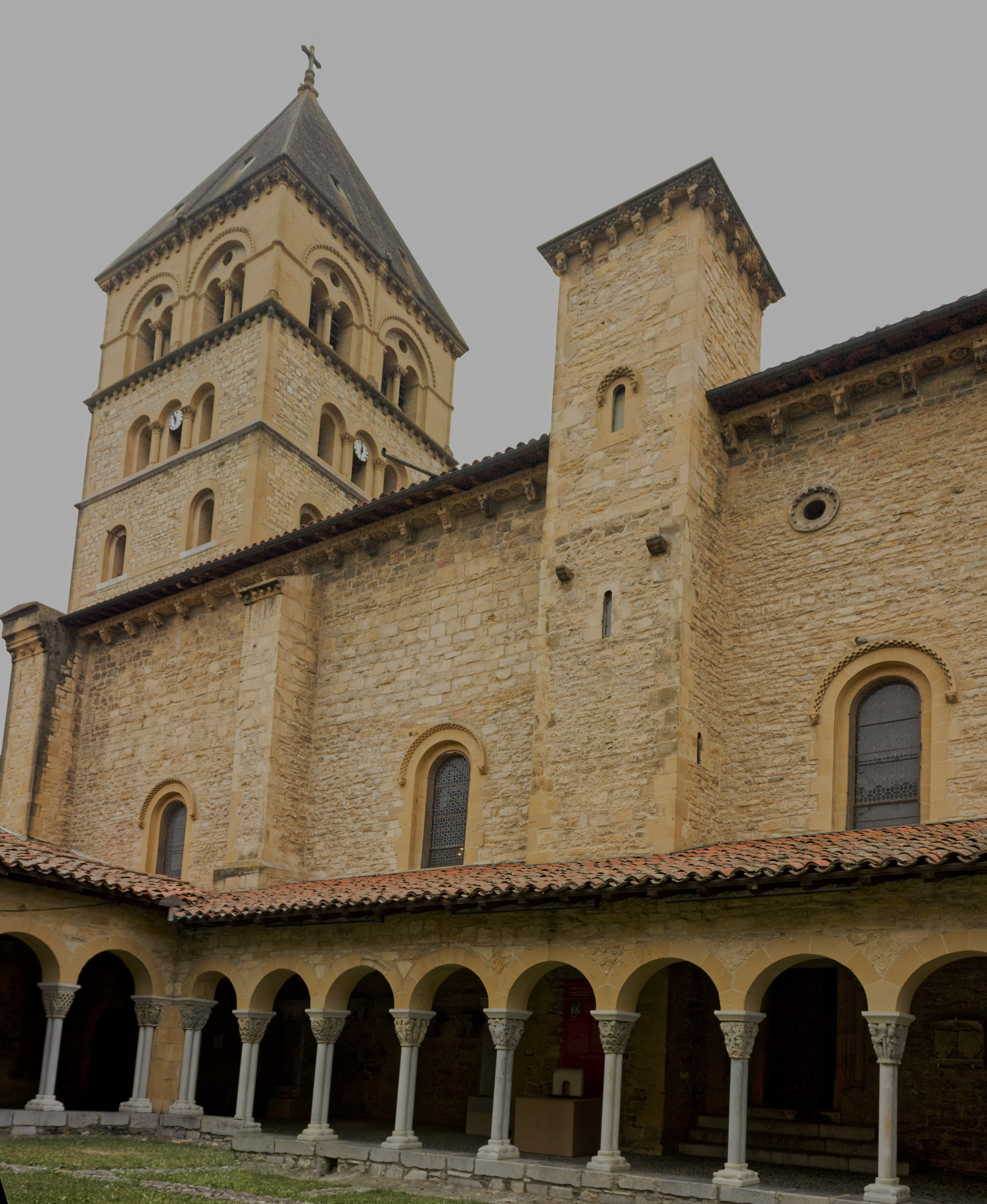 The bell tower of the collegiate, view of the cloister. Assembly of two shots (mess of stand back).